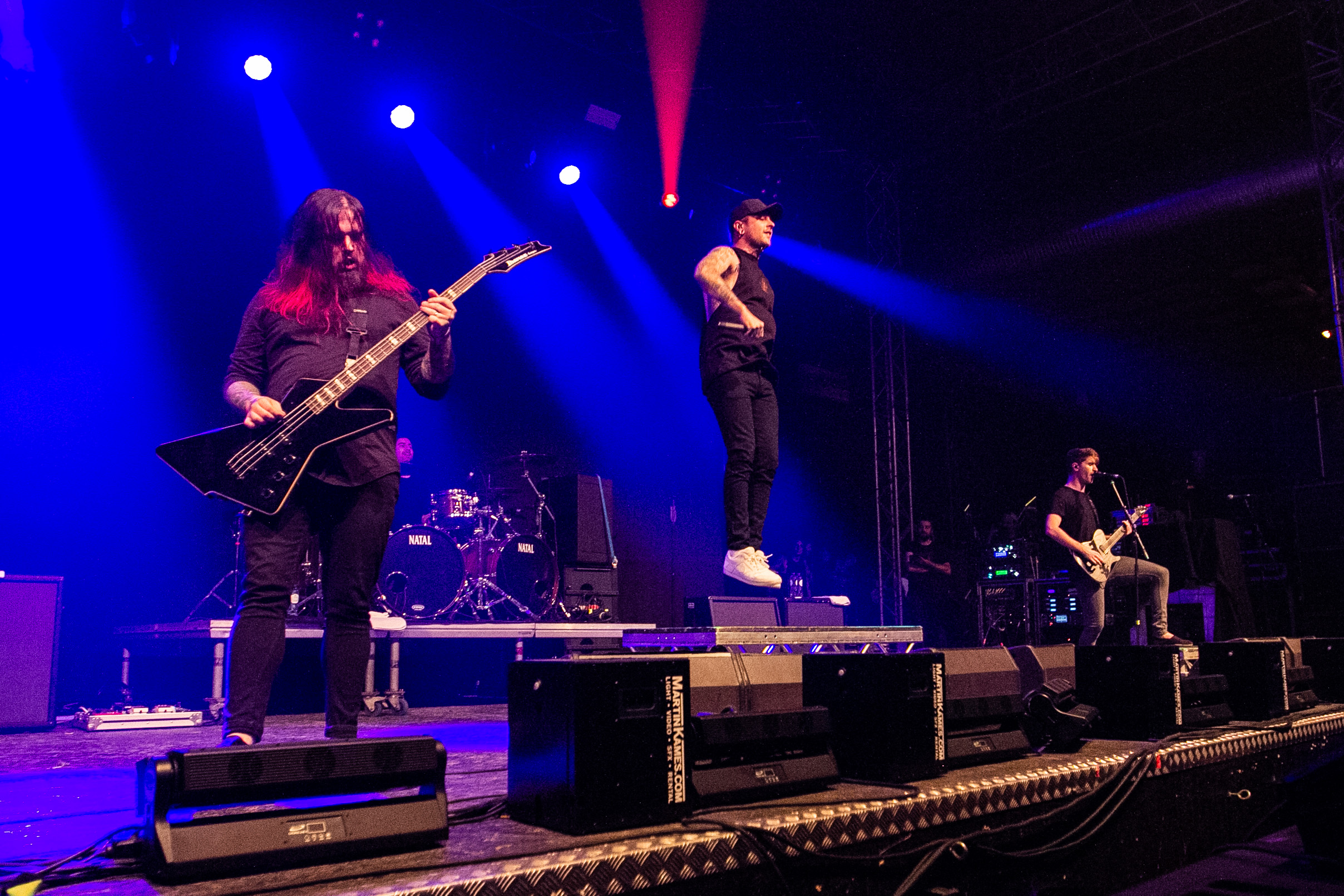 Bury Tomorrow at Impericon Festival 2018 Oberhausen